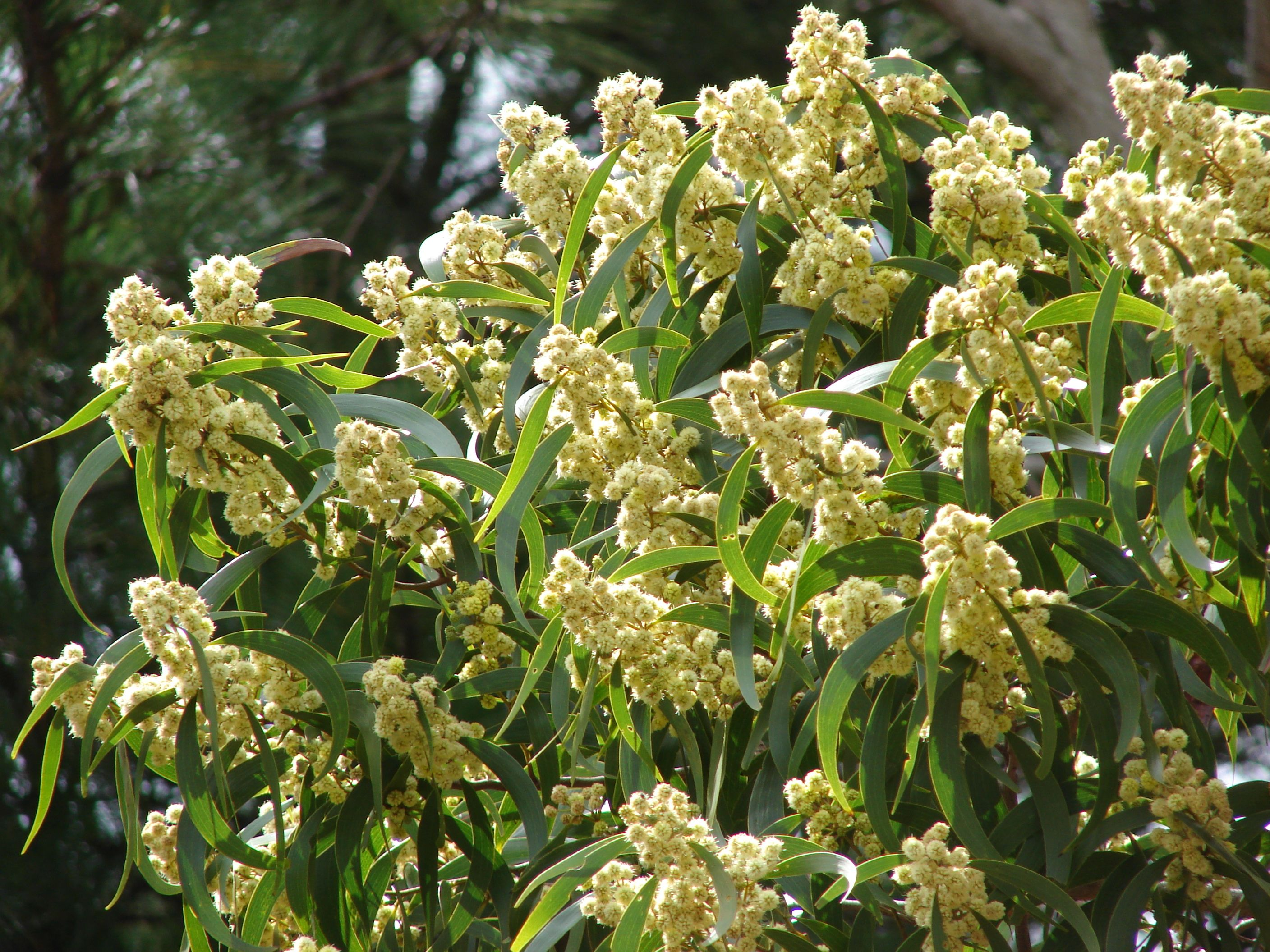 Acacia koa - Koa (Fabaceae) Flowers at Ulupalakua, Maui, Hawaii. Photo# starr-060325-6738 Image Usage Policy